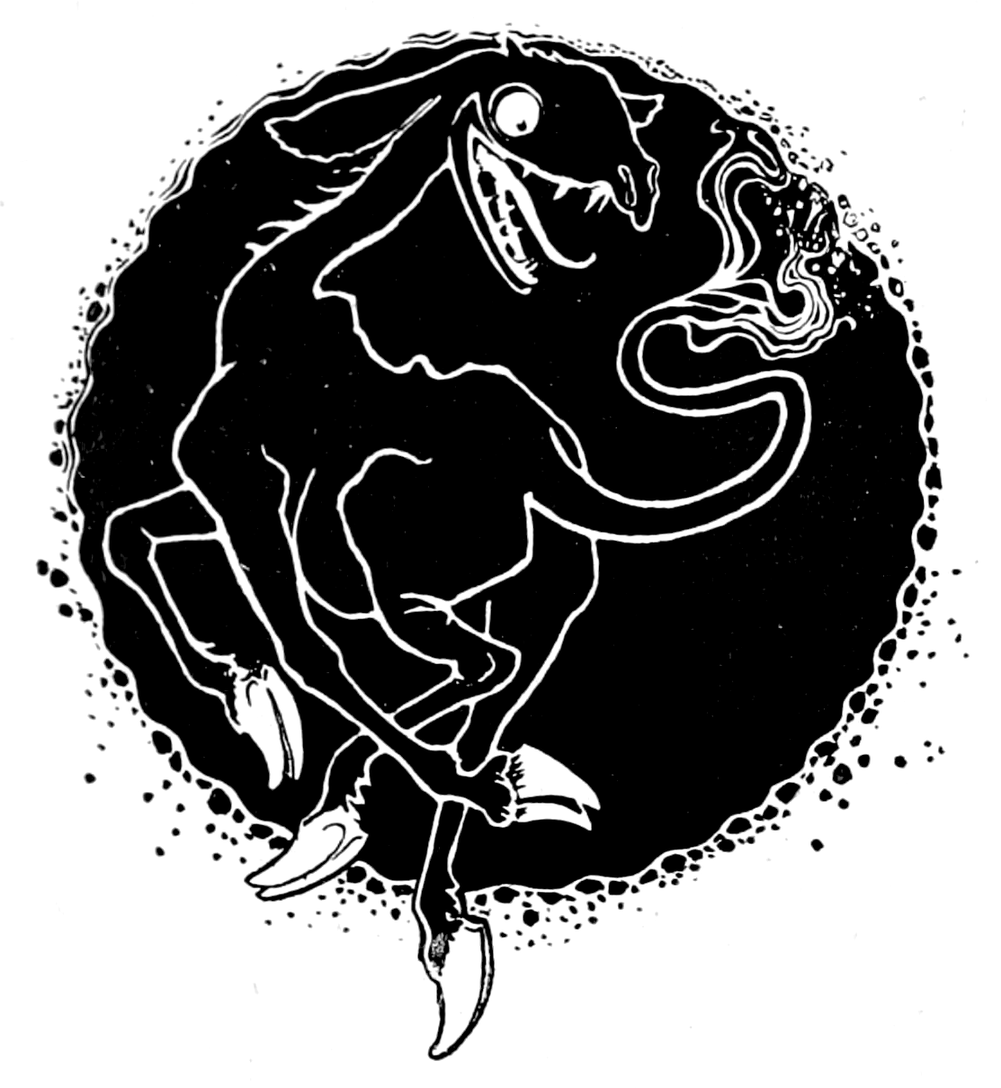 Scan illuatration on page of book in a series of fairy tales. A warning to children.